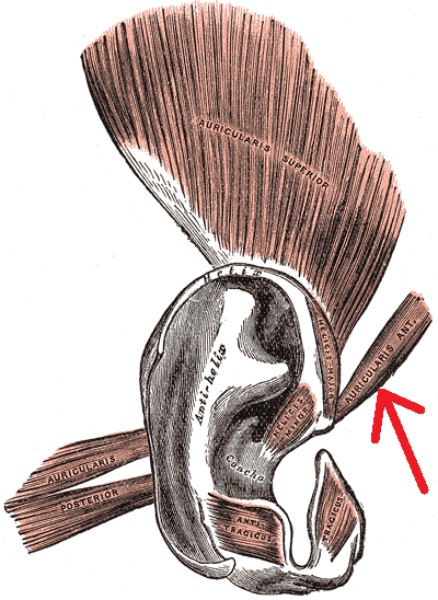 Anterior auricular muscle (pointed by the red arrow).